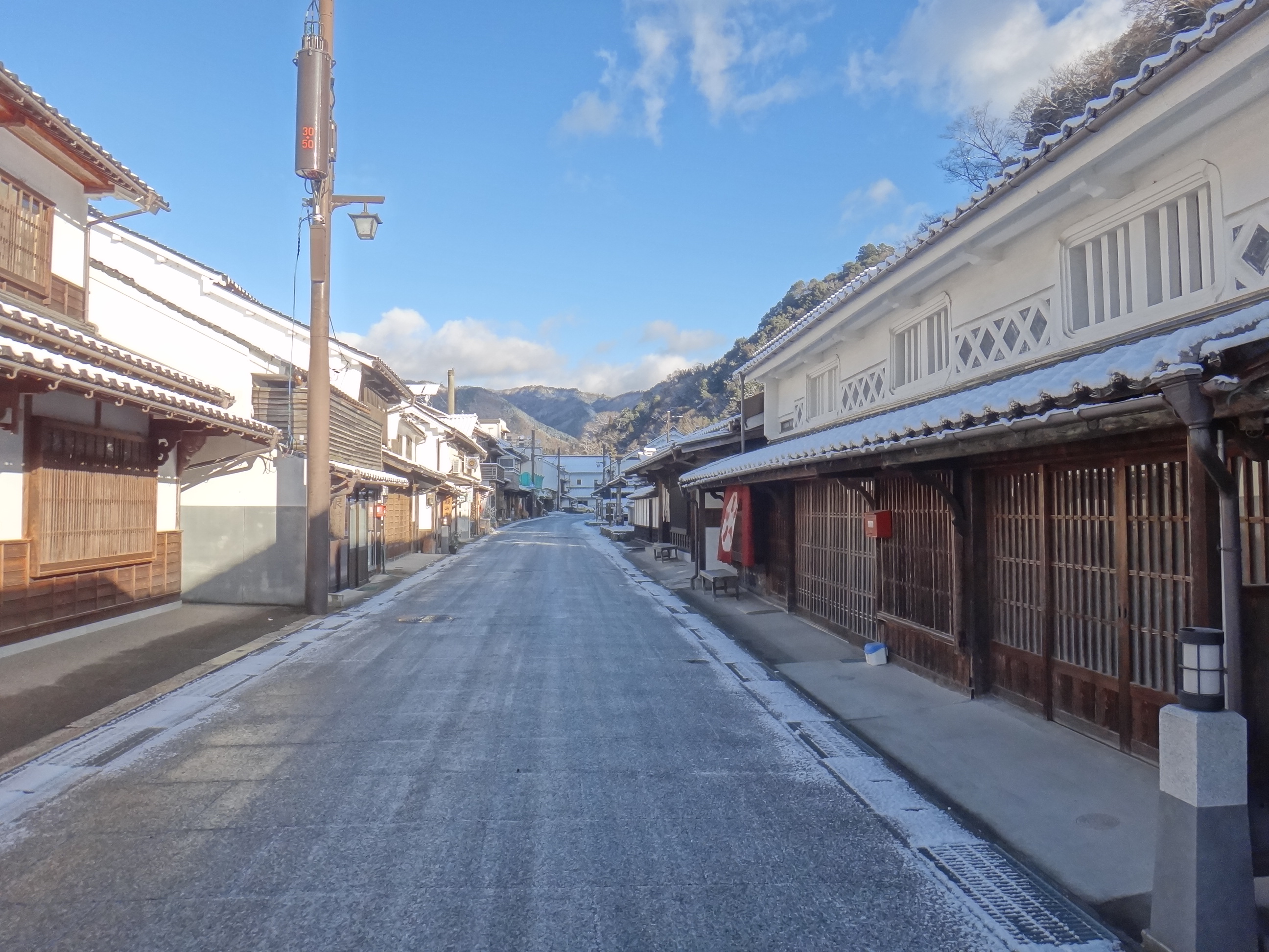 katuyama area,maniwa city,okayama pref